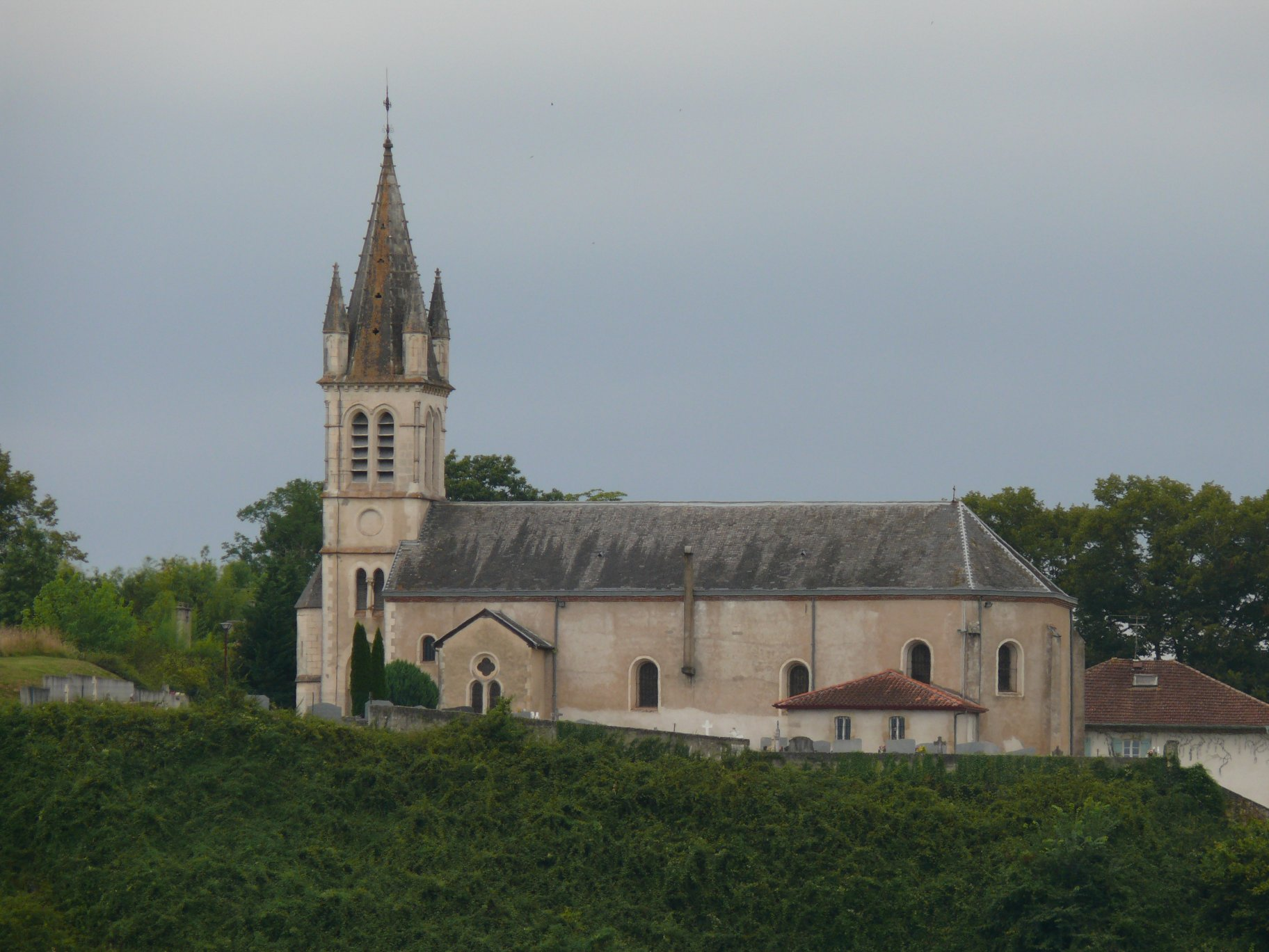 Saint-Peter's church of Cauneille (Landes, Aquitaine, France).